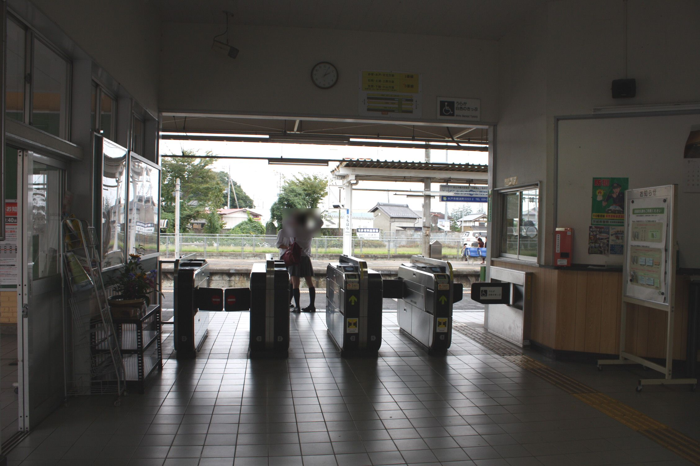 Uchihara Station ticket gate